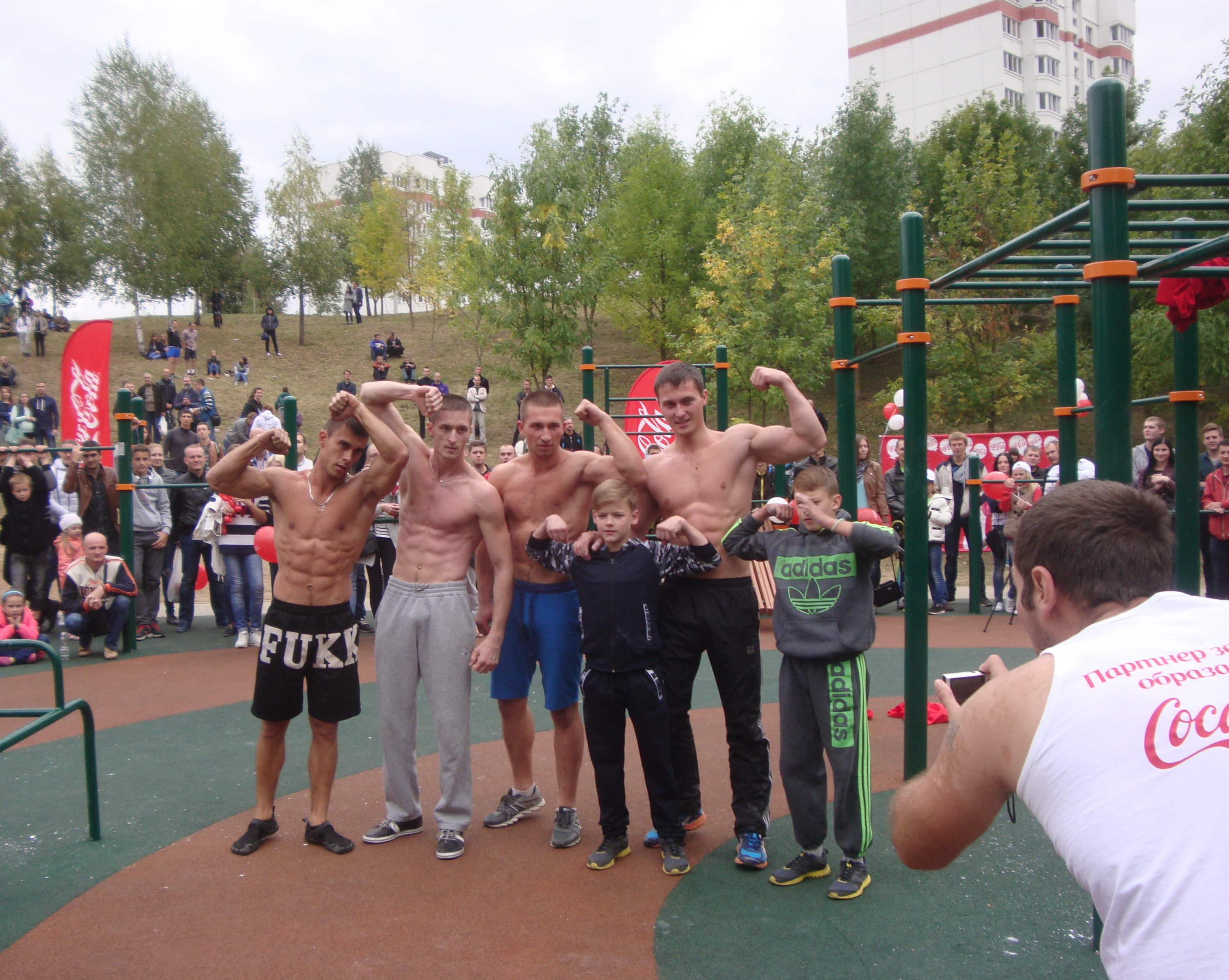 The official opening of the sports playground for street workout in Michail Paulau Park in Minsk city (Belarus), 12 September 2015 AD